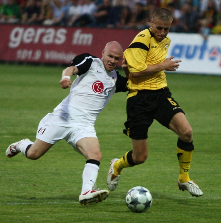 Andy Johnson and Algis Jankauskas battling for the ball during UEFA Europa League game between FK Vėtra and Fulham FC in Vilnius, Lithuania.